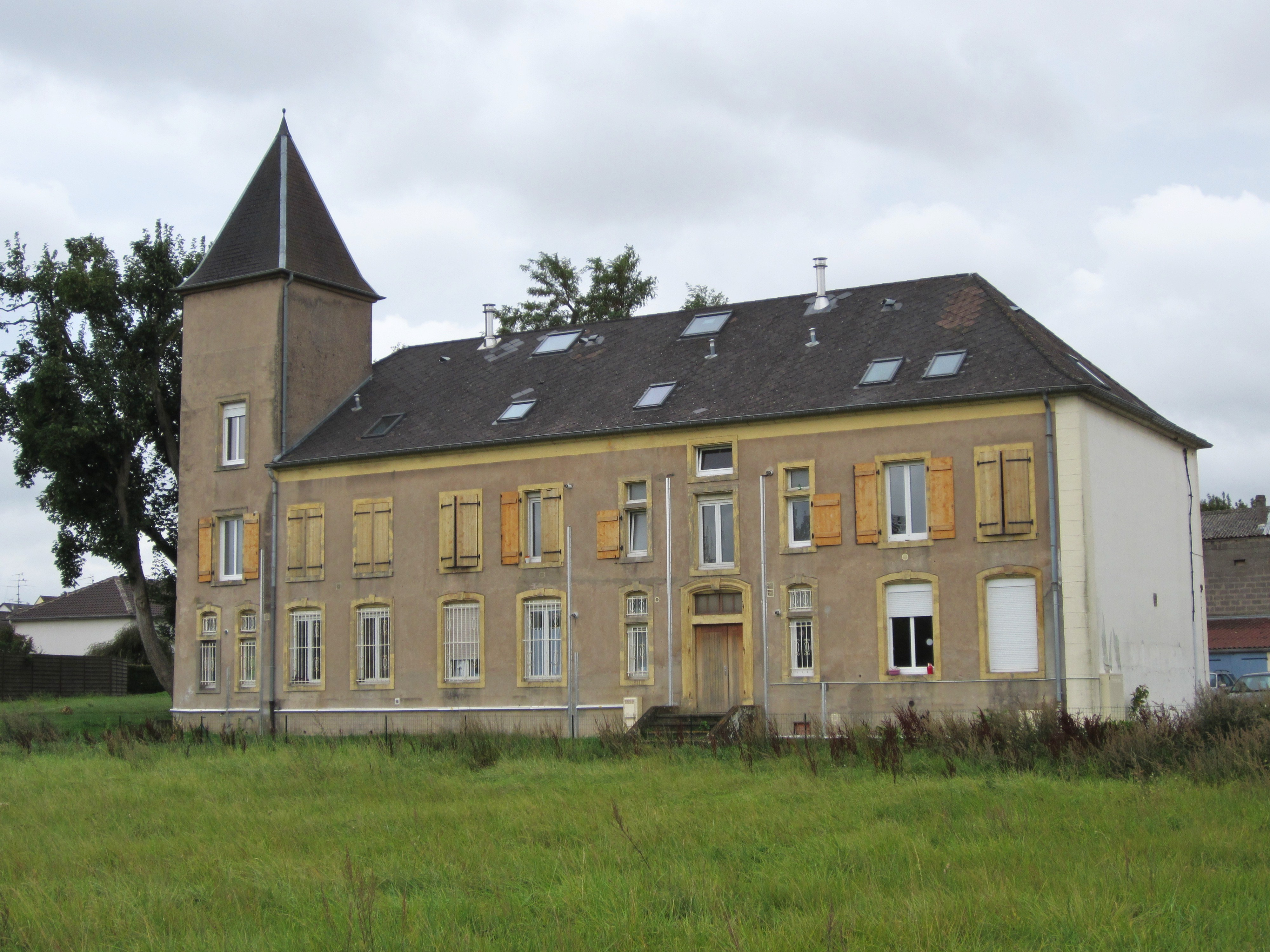 Description chateau Guenange Date8 September 2011Sourcemon appareil photoAuthorAimelaimePermission(Reusing this file) chateau Guenange